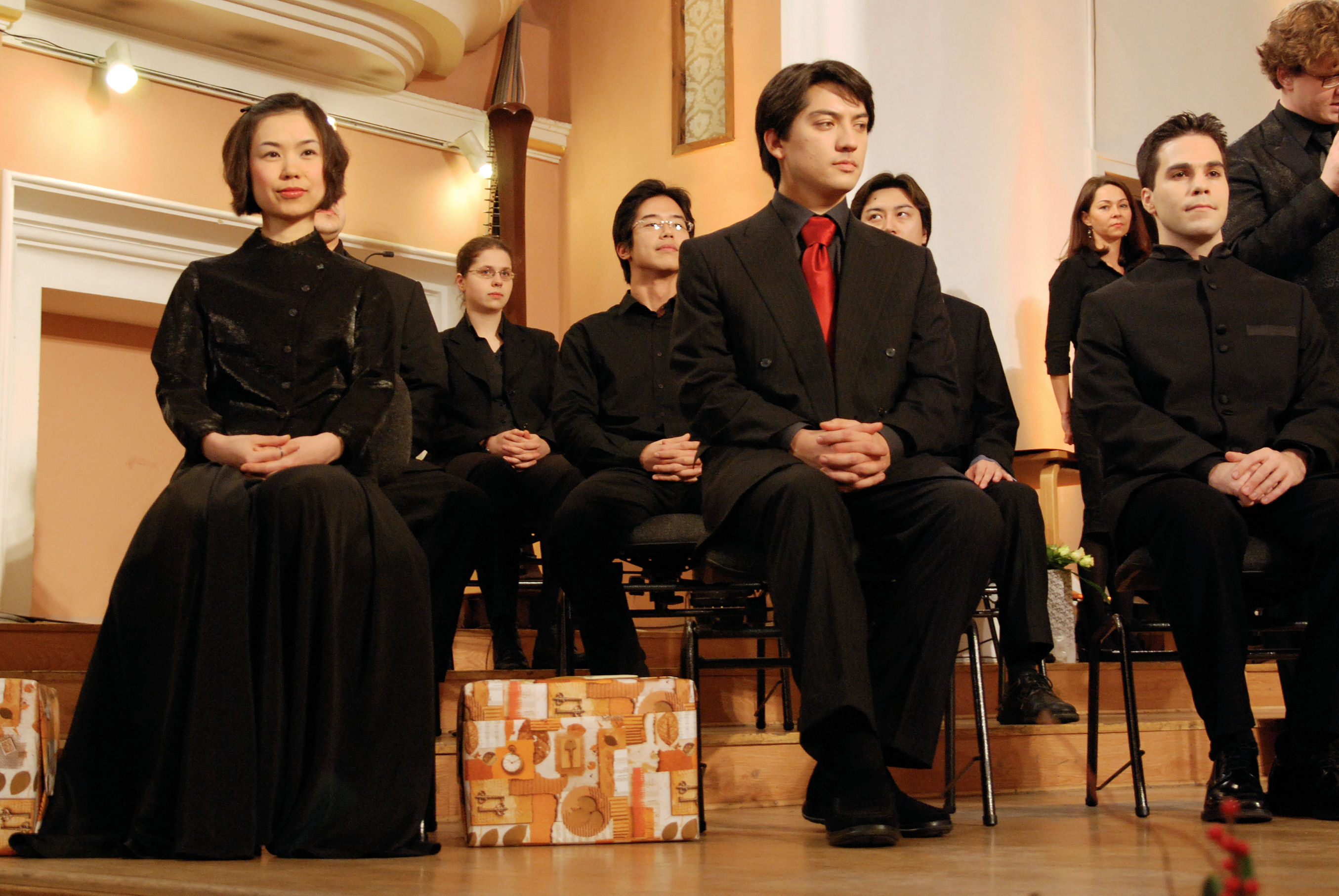 Laureates The 8th Grzegorz Fitelberg International Competition for Conductors in Katowice